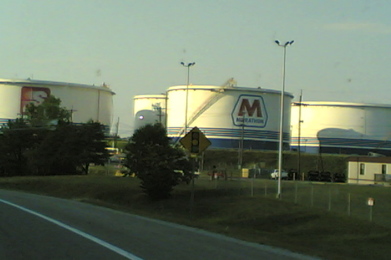 Marathon Oil Storage Tanks (Catlettsburg Refinery) on United States Route 23 at Catlettsburg, Boyd County, Kentucky, United States